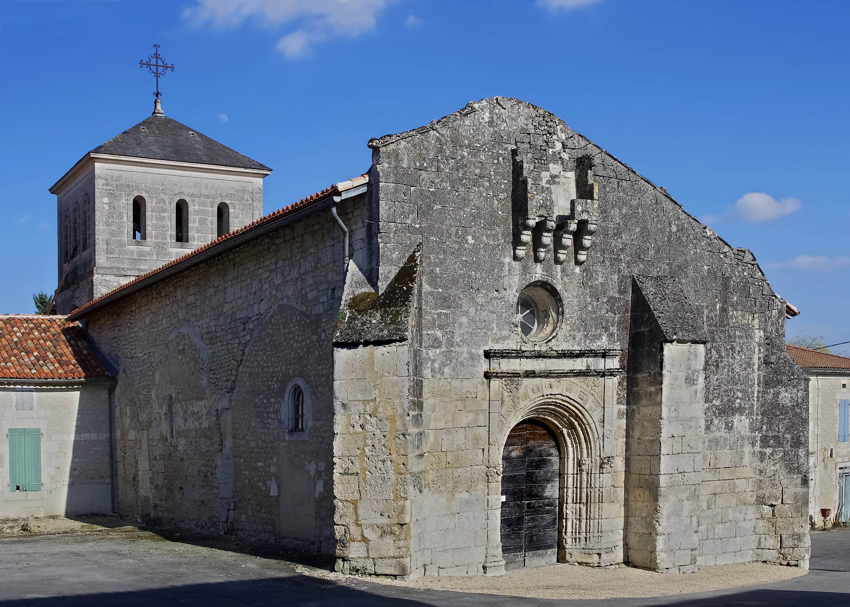 Church (12th and 16th centuries) of Nanteuil-de-Bourzac, Auriac-Nanteuil-de-Bourzac, Dordogne, France.